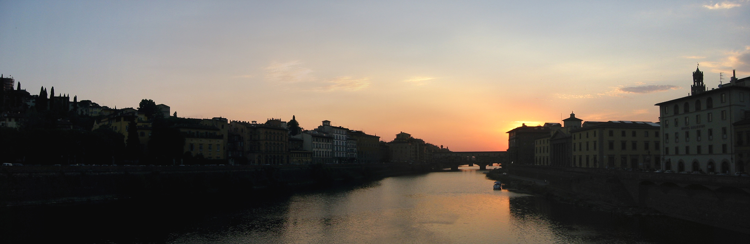 Panoramic view of Ponte Vecchio and surrounding buildings taken from the Alle Grazie bridge during sunset